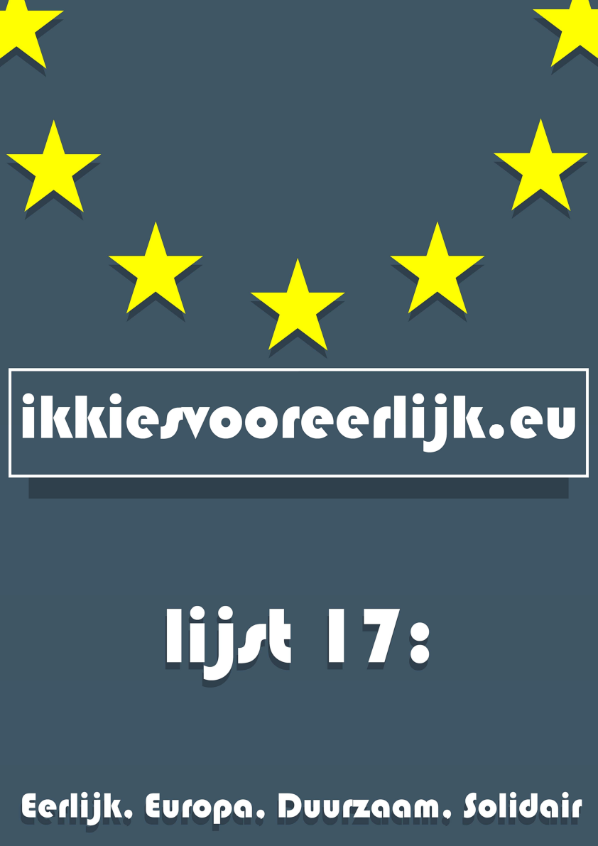 Ikkiesvooreerlijk.eu poster used in the European Parliament election of 2014